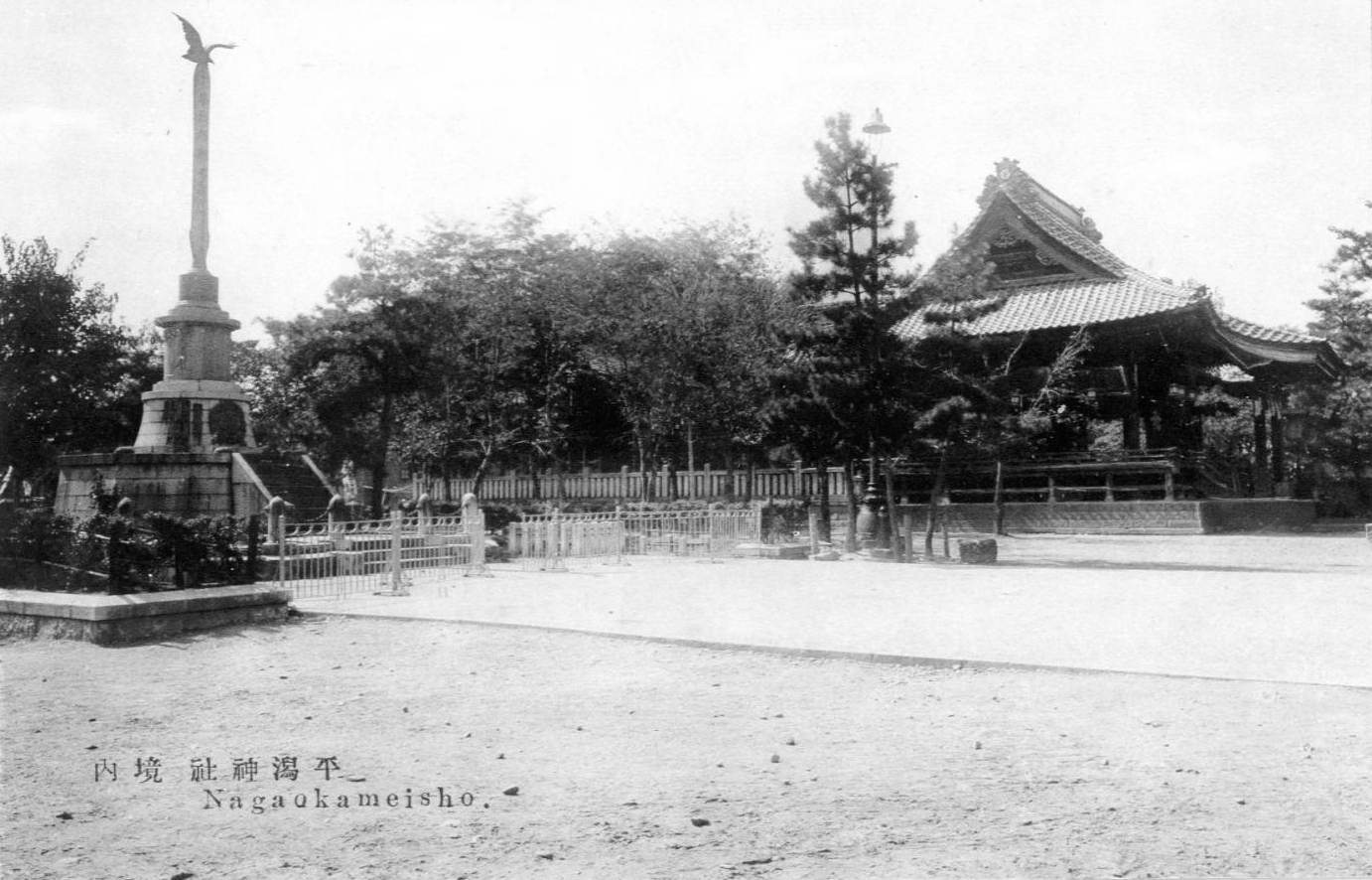 Japanese postcard of the Hiragata Jinja in Nagaoka in the early Shōwa era